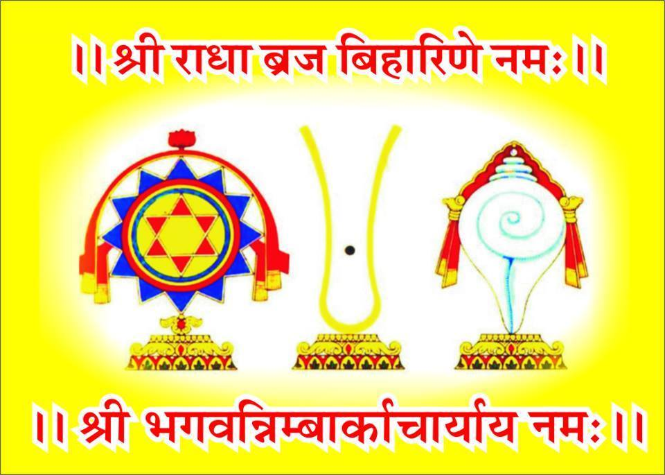 Shankha-Chakra-Tilak of the Nimbarka Vaishnava Sampradaya